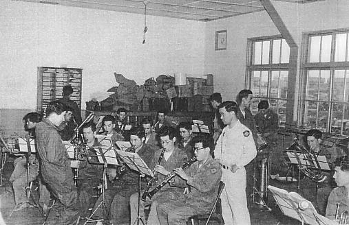 NSF(National Safety Force of Japan) Central Band